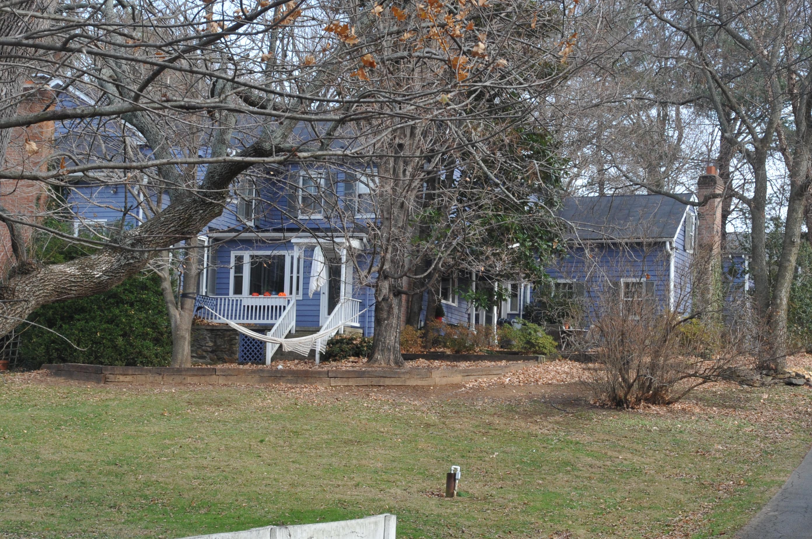 CHANBOURNE, 1852; PRIMARILY A HISTORIC RESIDENTIAL DISTRICT CENTERED AROUND A FORMER WATER BOTTLING PLANT, A PUBLIC SPRINGHOUSE AND SPRING SITE